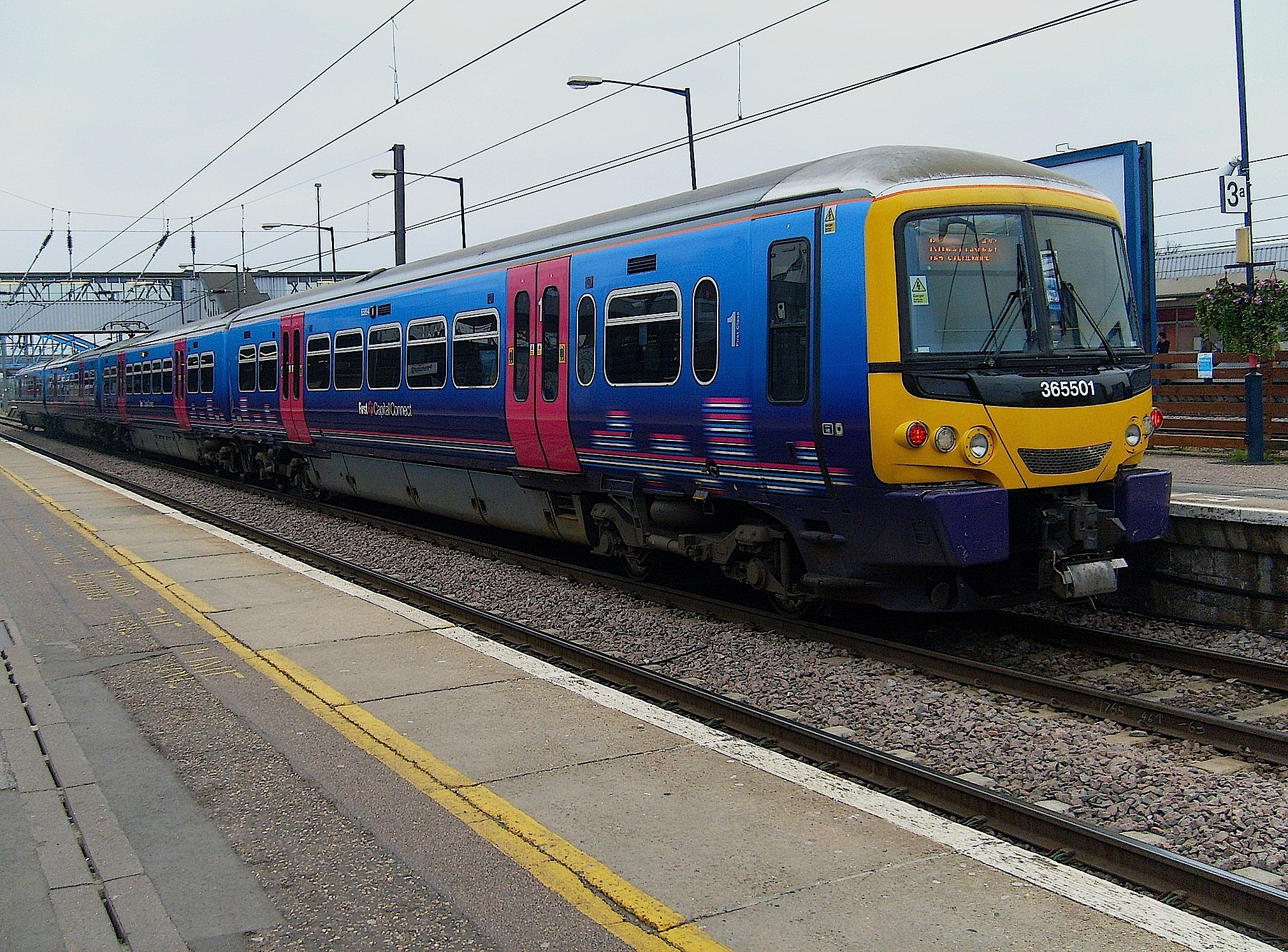 First Capital Connect Class 365 No. 365501 at Peterborough